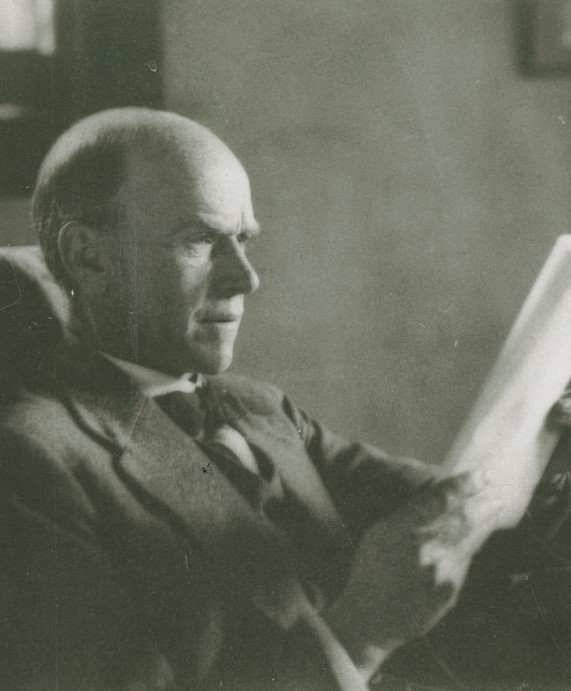 Portrait of Elton Mayo.